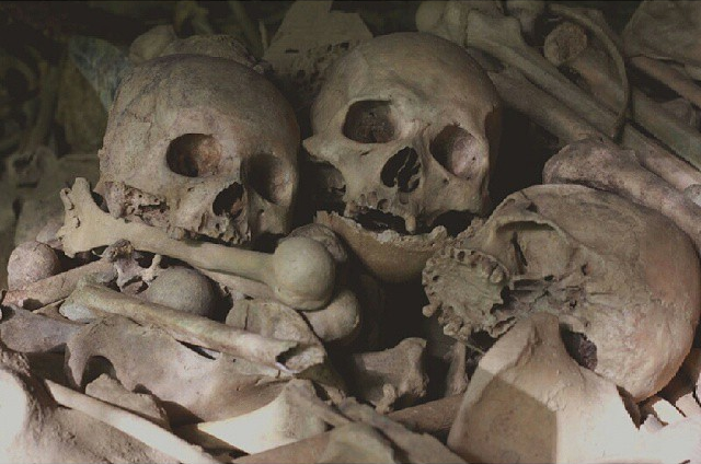 Skulls on the Latea Caves, January 2015.